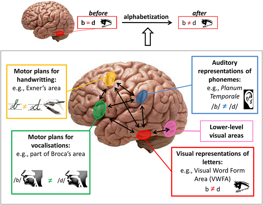 Brain pathways for mirror discrimination learning during literacy acquisition. Upper: The Visual Word Form Area [VWFA] (in red) presents mirror invariance before alphabetization and mirror discrimination for letters after alphabetization. A key aspect of alphabetization is to set in place the audio-visual mapping known as “phoneme-grapheme correspondence,” whereby elementary sounds of language (i.e., phonemes) are linked to visual representations of them (i.e., graphemes) (Frith, 1986). Lower: During alphabetization, the VWFA can receive top-down inputs with discriminative information from phonological, gestural (handwriting) and speech production areas and bottom-up inputs from lower level visual areas. All these inputs can help the VWFA to discriminate between mirror representations, thus correctly identifying letters to enable a fluent reading.